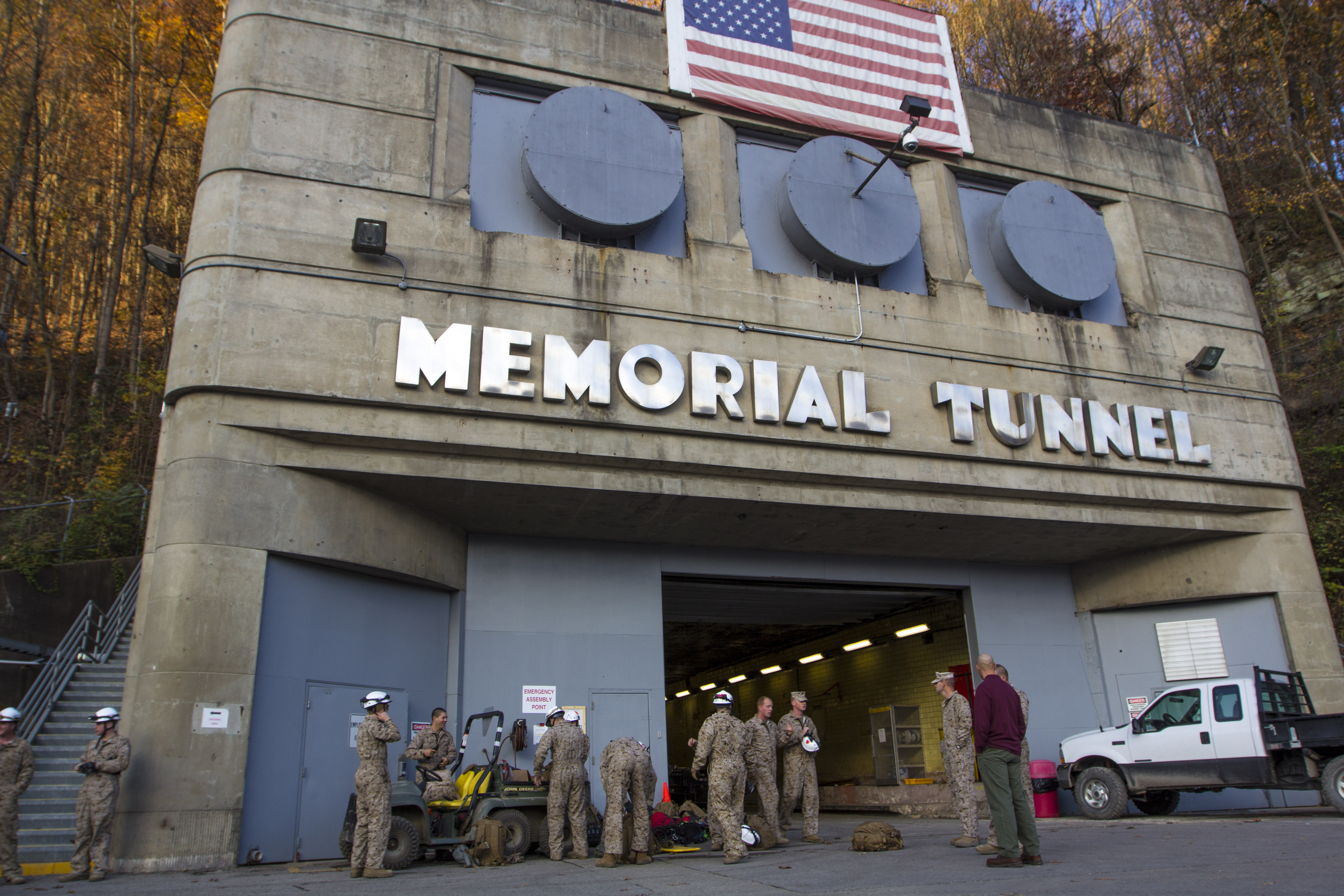 Marines and sailors assigned to Chemical, Biological, Radiological and Nuclear (CBRN), Assessment and Consequence Management (ACM) team, 26th Marine Expeditionary Unit (MEU), stand outside the Center for National Response (CNR) in Gallagher, W. Va., Oct. 25, 2012. CNR is a flexible training complex that provides multi-scenario exercises for the military or joint operations with military and first responders. The 26th MEU CBRN/ACM Team is the first fully trained, certified and equipped team to deploy with a MEU, which is slated to deploy in 2013. (U.S. Marine Corps photo by Cpl. Christopher Q. Stone/Released)